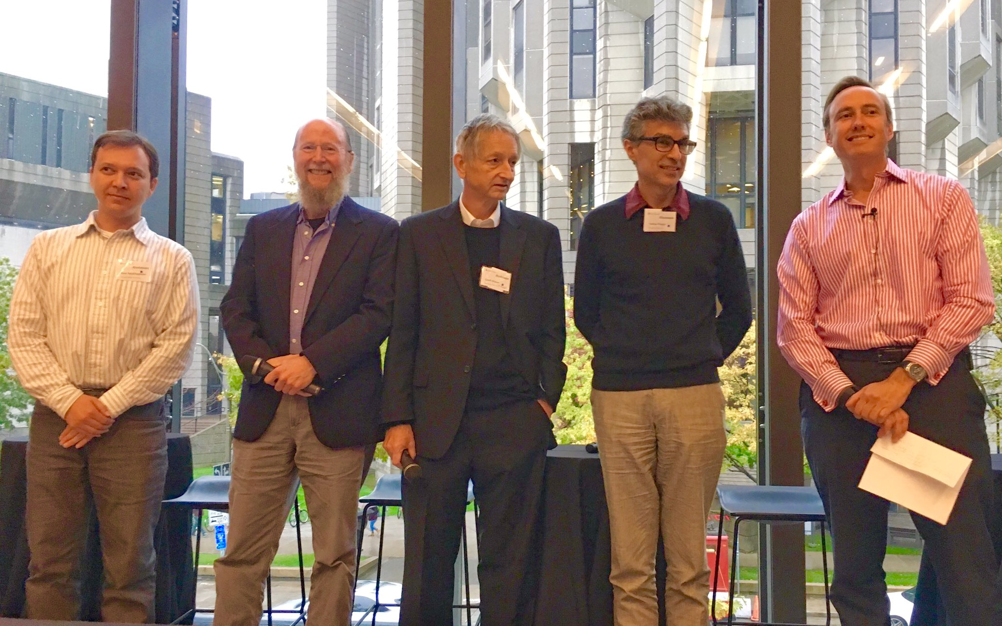 Russ Salakhutdinov, Rich Sutton, Geoff Hinton, and Yoshua Bengio, Steve Jurvetson